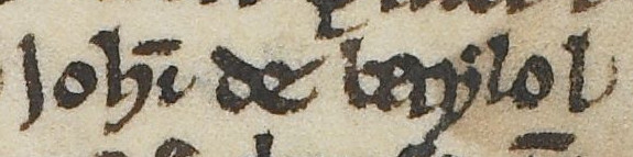 An excerpt from folio 43r of British Library Cotton MS Faustina B IX (the Chronicle of Melrose). The excerpt refers to John de Balliol (died 1268). The excerpt concerns the record of the death of Alan fitz Roland, John's father-in-law.